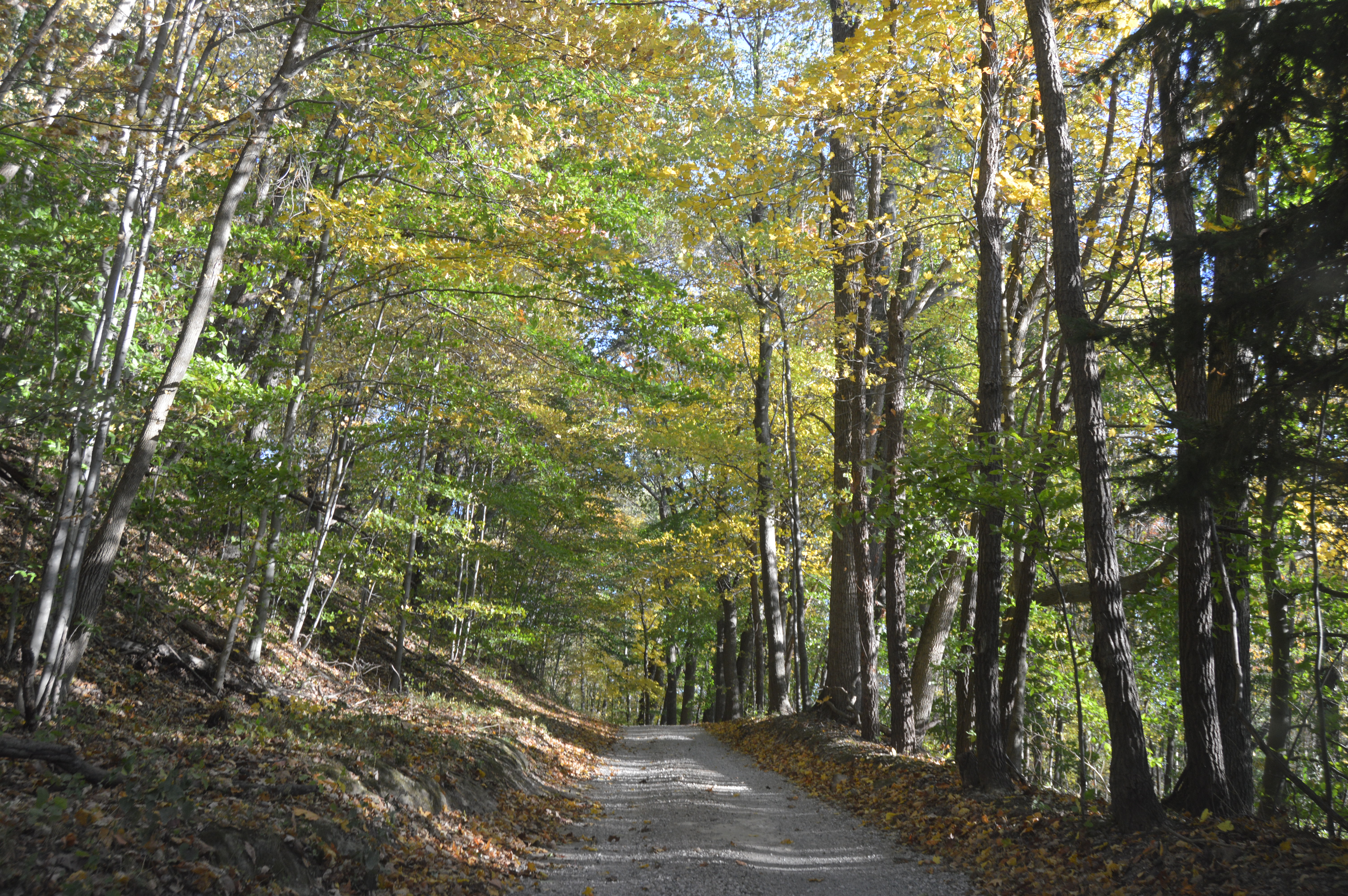 Looking southward on Township Road 1225 in the southwestern corner of Mifflin Township, Ashland County, Ohio, United States.